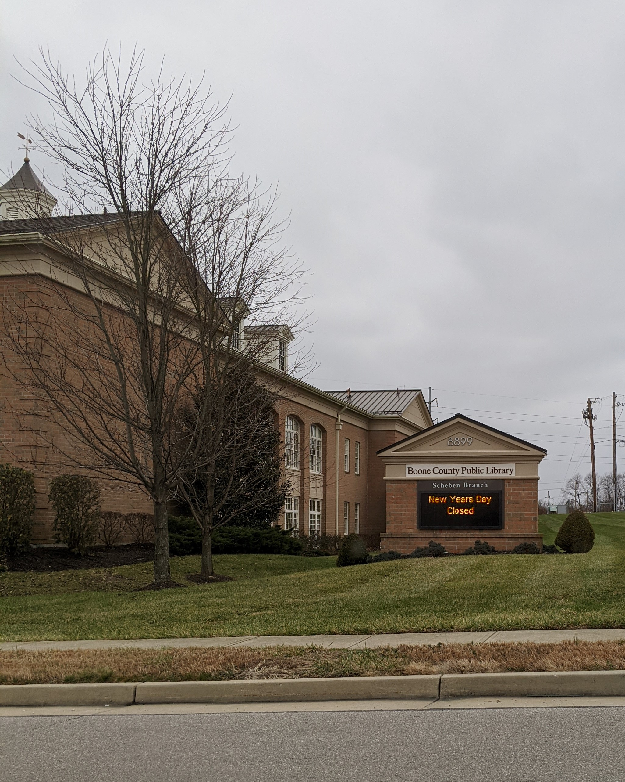 BCPL Scheben Branch marquee and rear facade